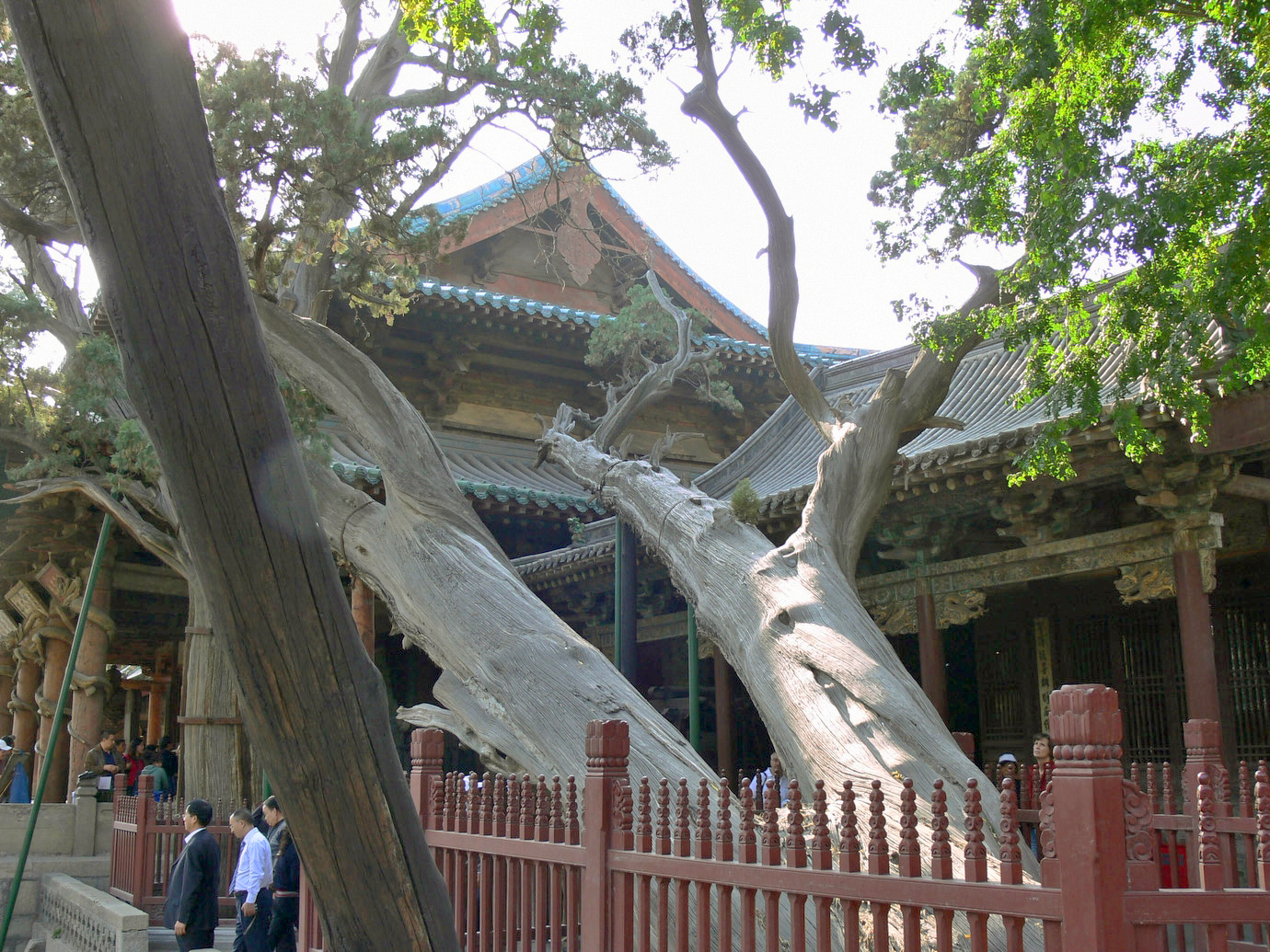 Zhou dynasty cypress trees in Jin Temple, Taiyuan